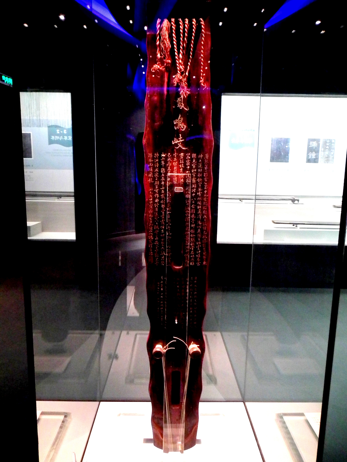 Collected and exhibited in Zhejiang Provincial Museum.